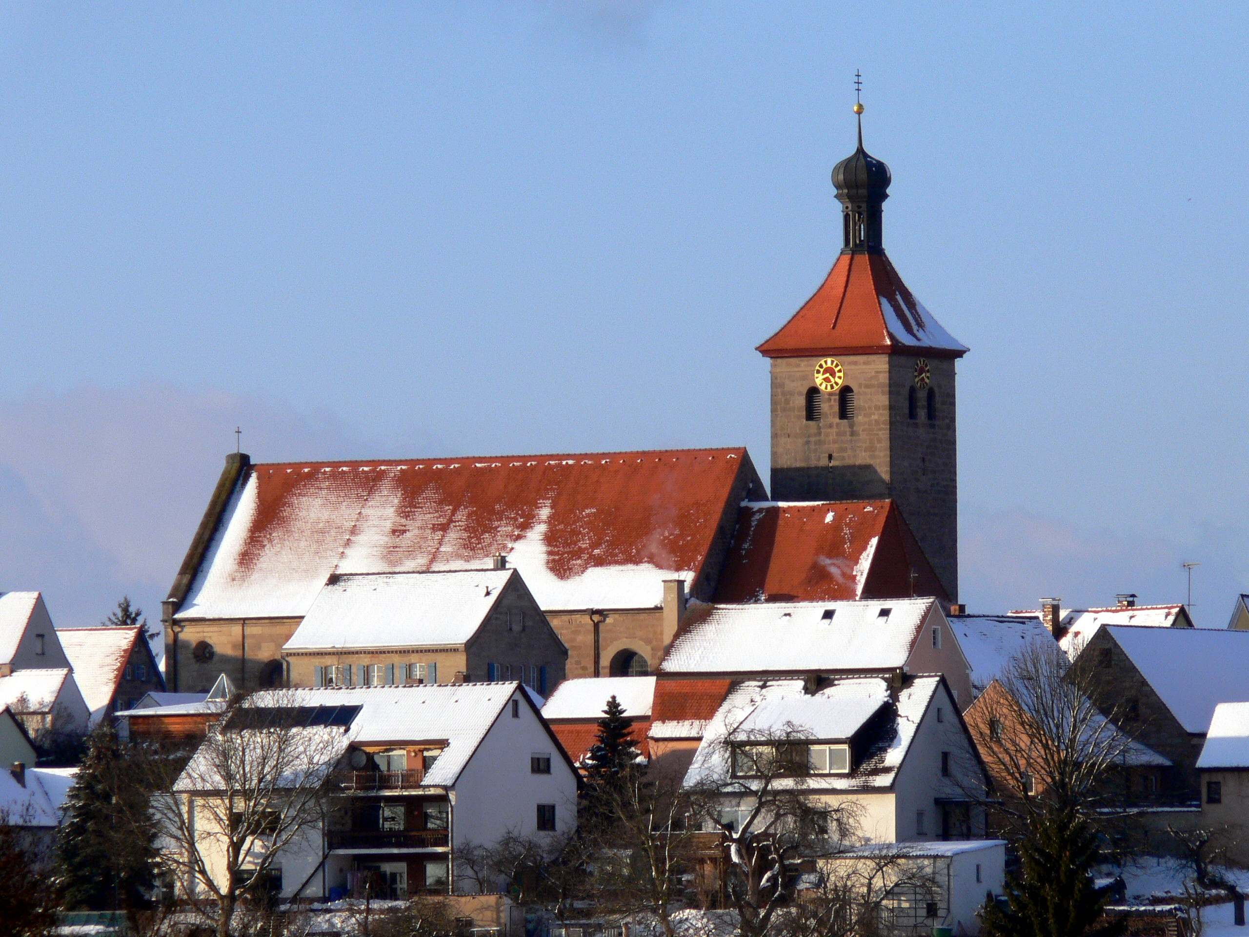 Saint James parish church in Abenberg seen from the monastery of Marienberg.